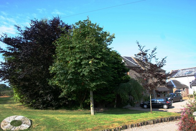 Pittendreich Mill The converted Mill at Pittendreich with millstone at the entrance.